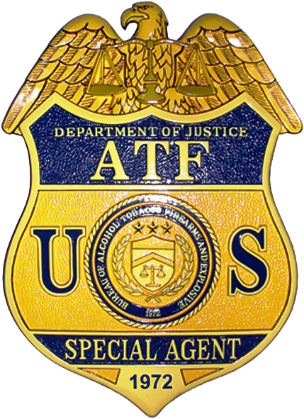 Badge of an officer the Bureau of Alcohol, Tobacco, Firearms and Explosives (BATFE).